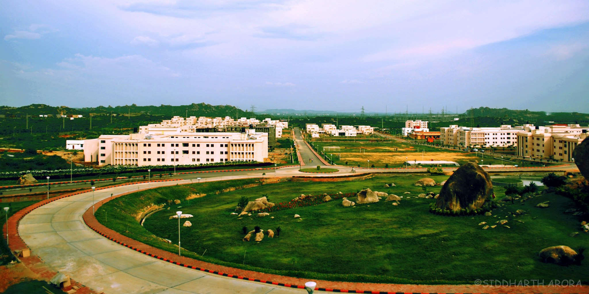 A view of the hostels, BPHC